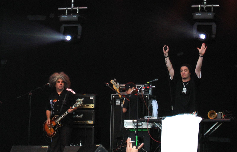 Fantômas, Ruisrock 2005